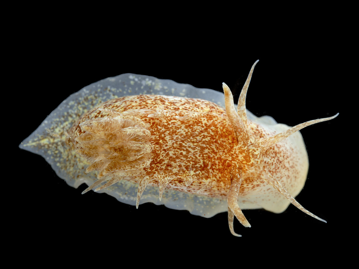 The nudibranch Okenia aspersa (Alder & Hancock, 1845) (synonym: Okenia pulchella), Firth of Lorn, Scotland.